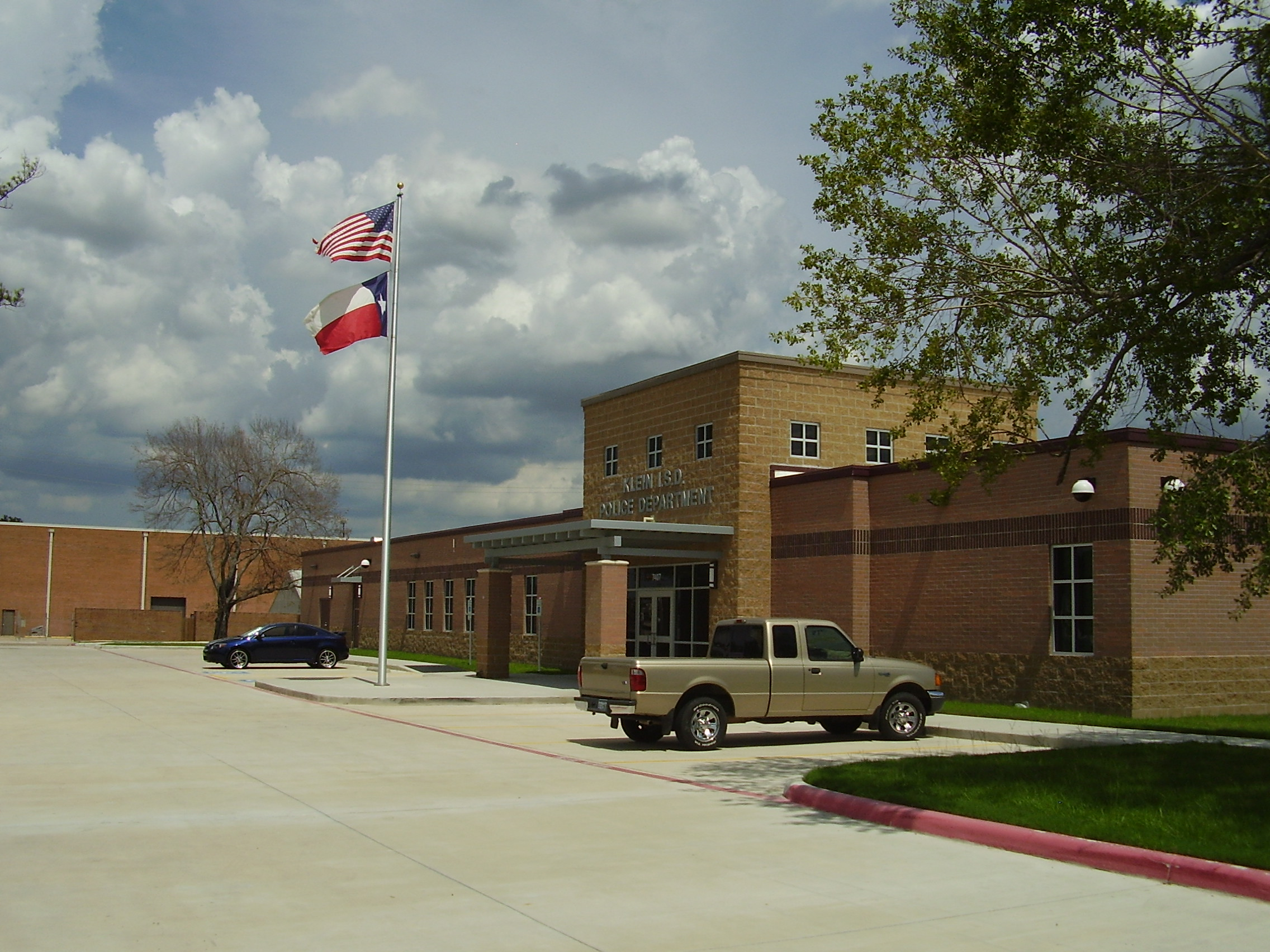 Klein Independent School District Police Department